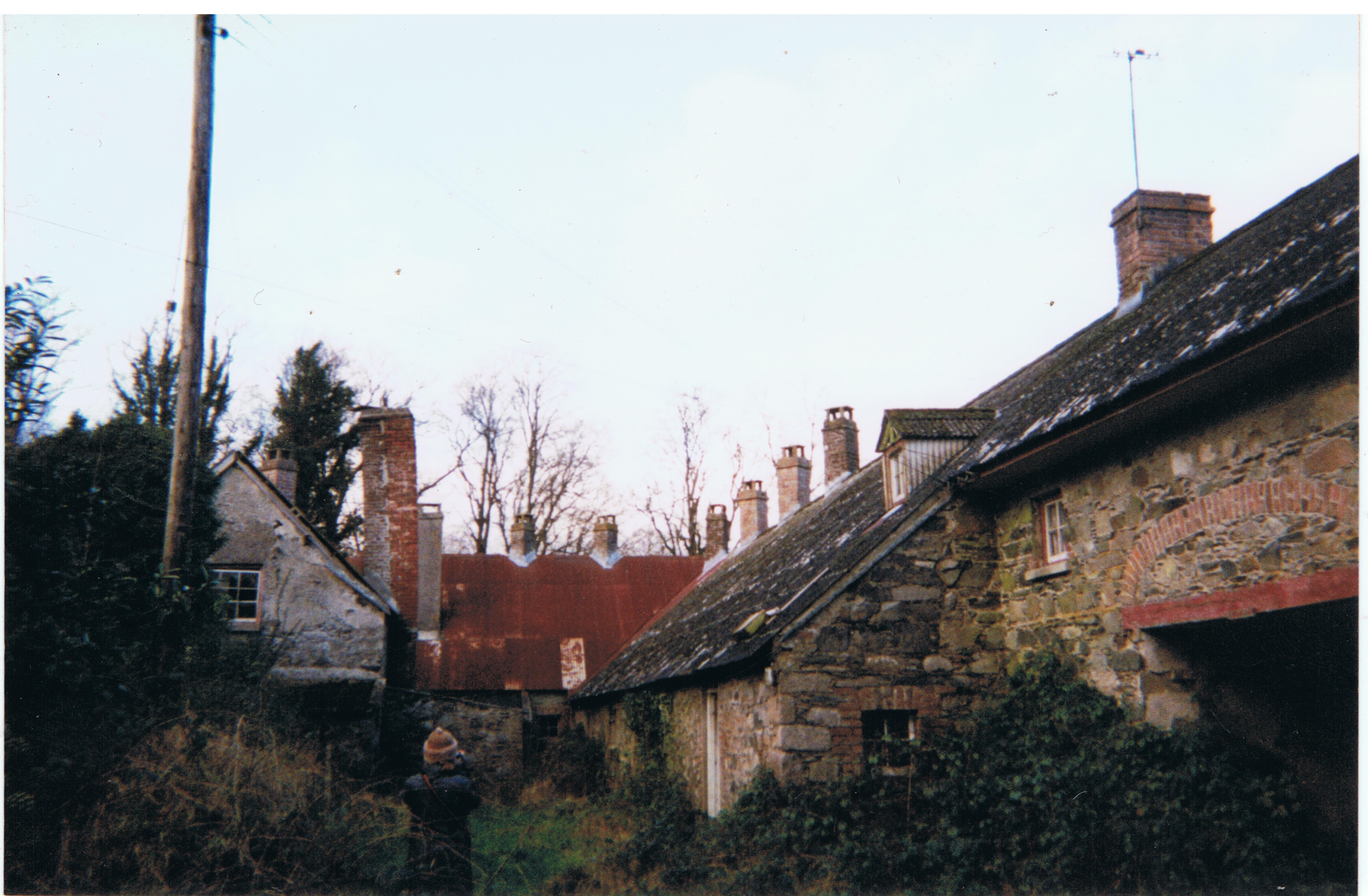 Scan of a 6 x 4 inch photo (both scan & photo by me, R. de Salis, Rodolph (talk) 00:53, 14 February 2015 (UTC)) of Burrenwood, cottage ornée, County Down, Ulster, January 2002, showing the back.